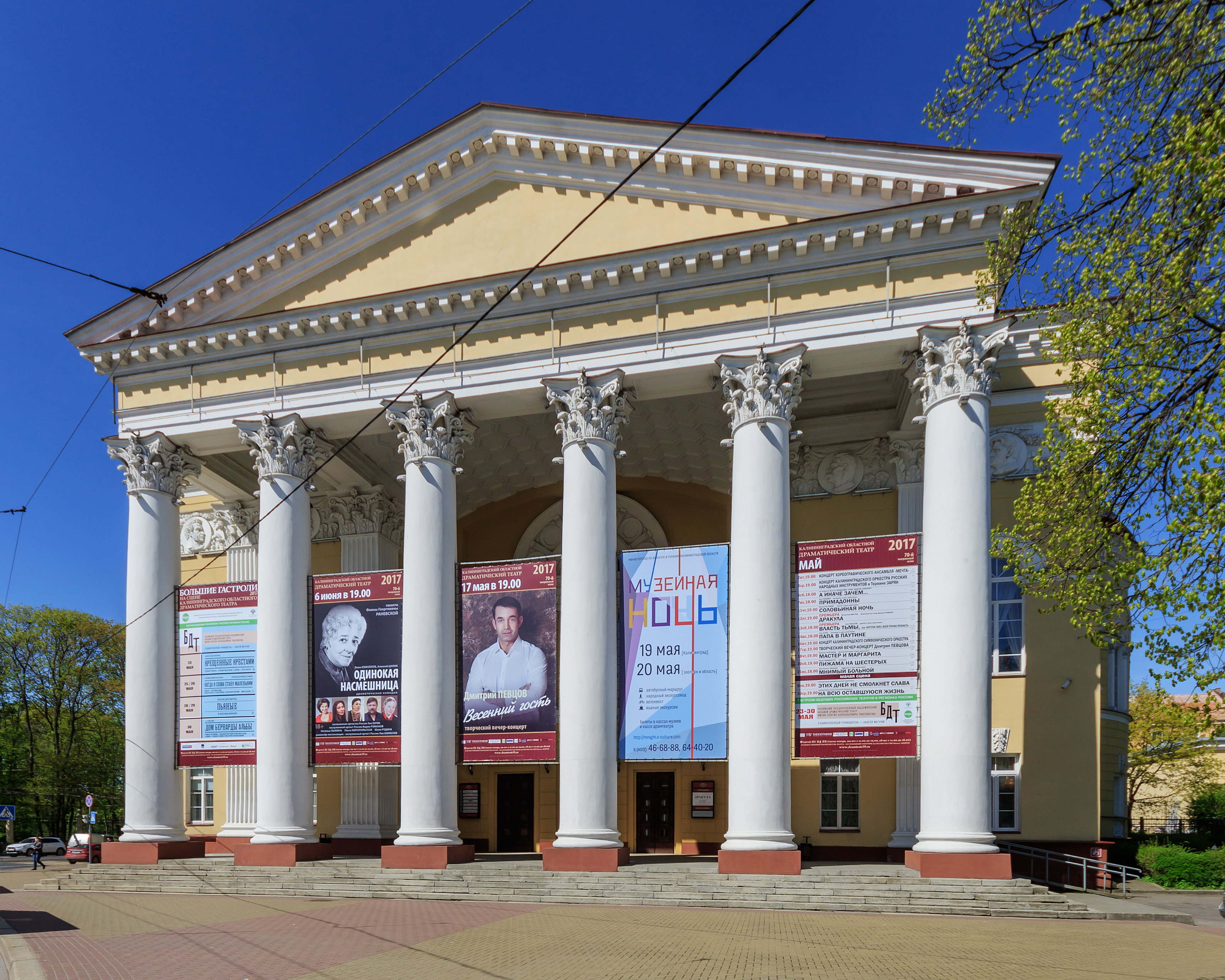 Drama Theatre in Kaliningrad formerly Königsberg, Kaliningrad Oblast (Russia).